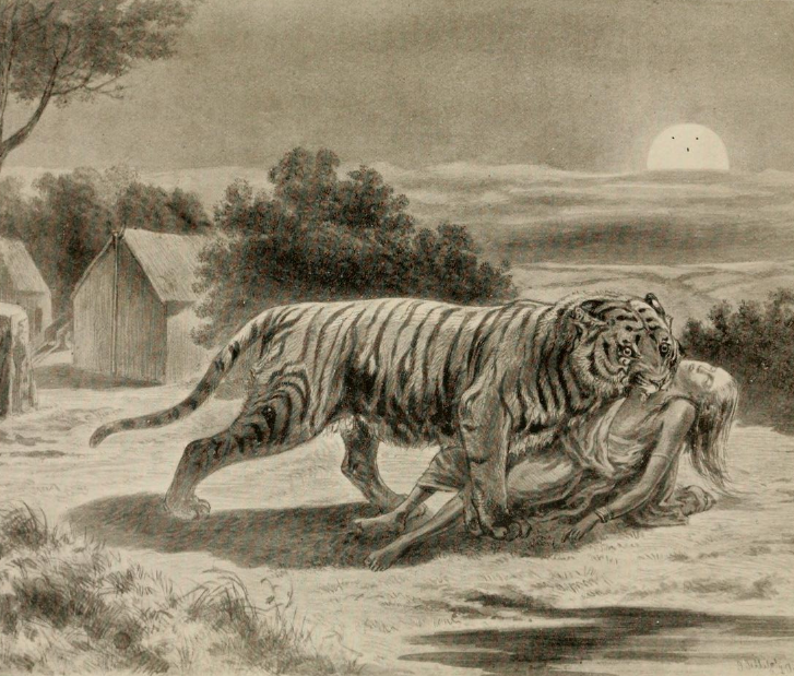 Illustration of a bengal tiger dragging a human victim